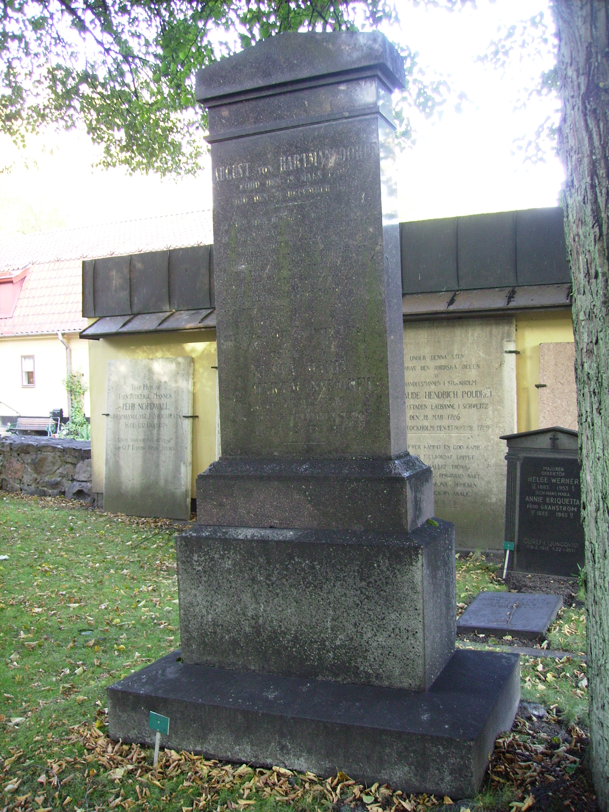 Picture of August von Hartmansdorff's grave at Solna kyrkogård